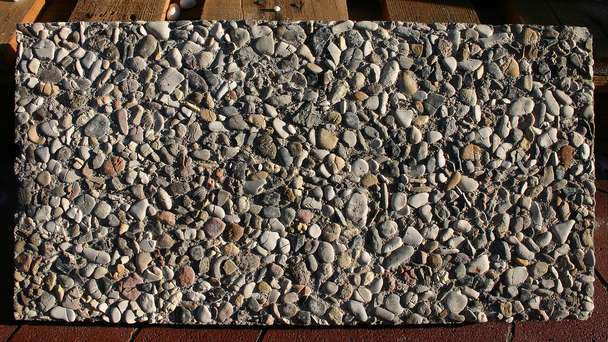 flagstone of washed-out concrete